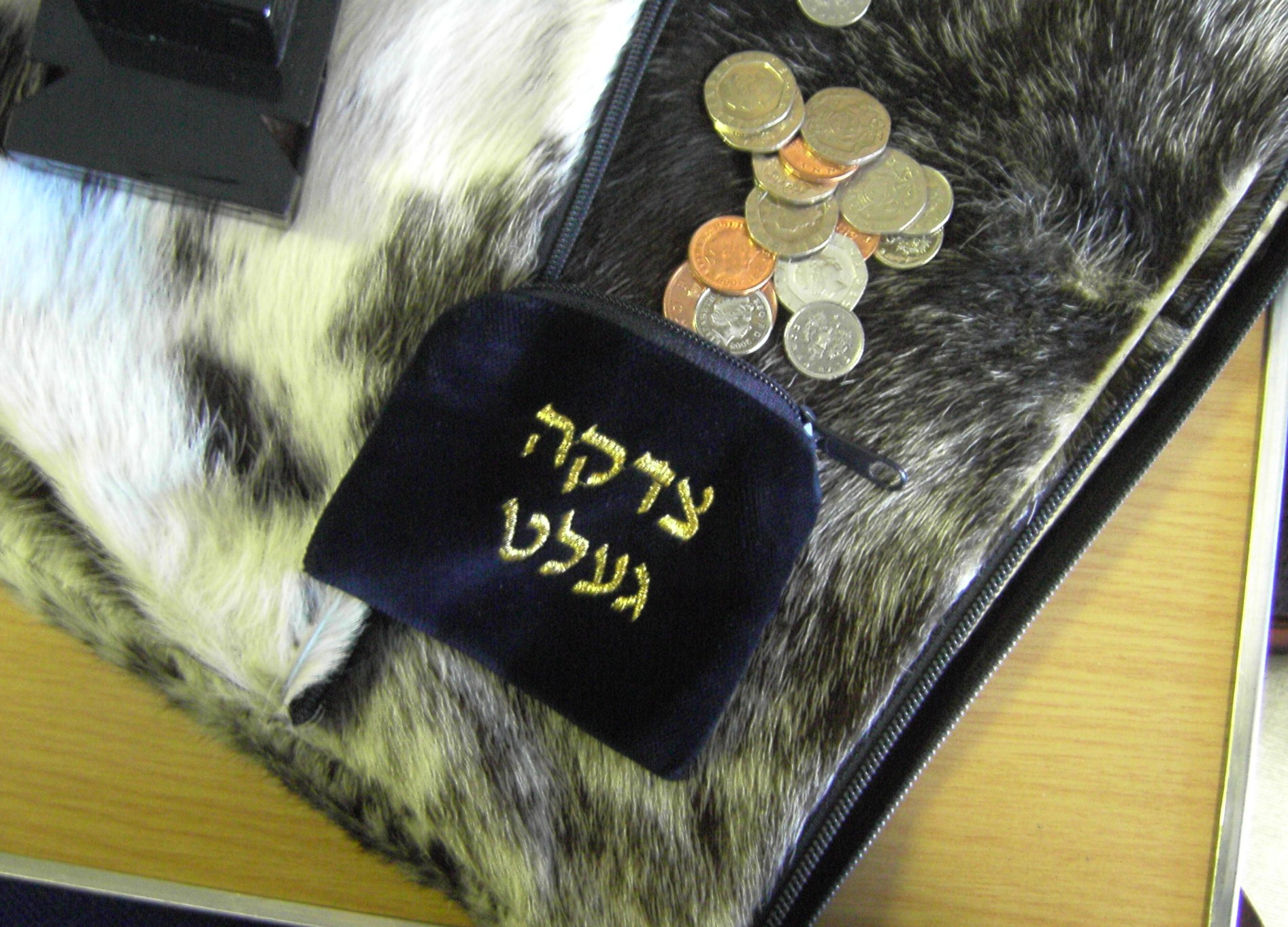 Charity pouch. Embroidered inscription : צדקה געלט.